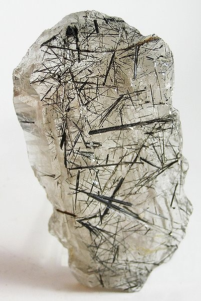 Schorl, Quartz Locality: Minas Gerais, Southeast Region, Brazil (Locality at ) Size: 10.5 x 4.9 x 2.3 cm. This is a strange flattened smoky quartz crystal, complete all the way around except for one end. One of the large faces is richly shot through with dozens of slender schorl crystals.